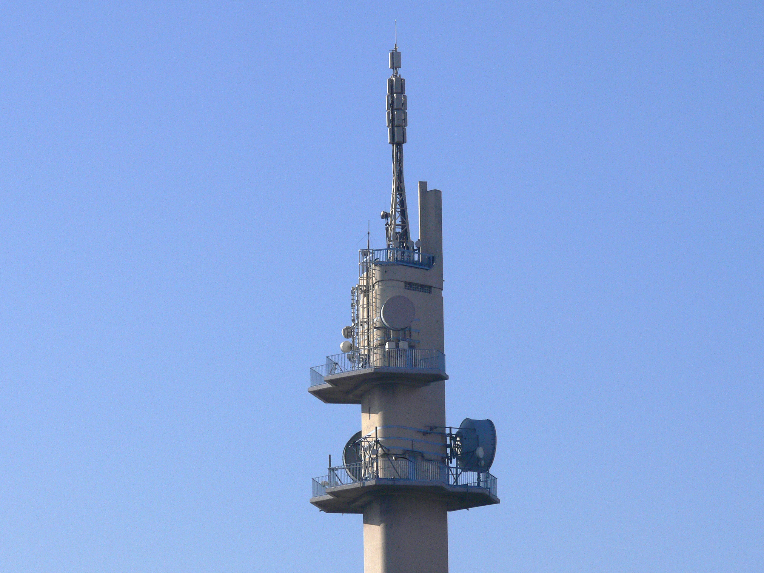 broadcasting station of Lambersart, near Lille, in the north of the France